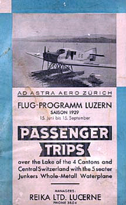 Ad Astra Aero S.A. : Poster of Flug-Programm Luzern Saison 1929 showing Junkers F 13 flying boat